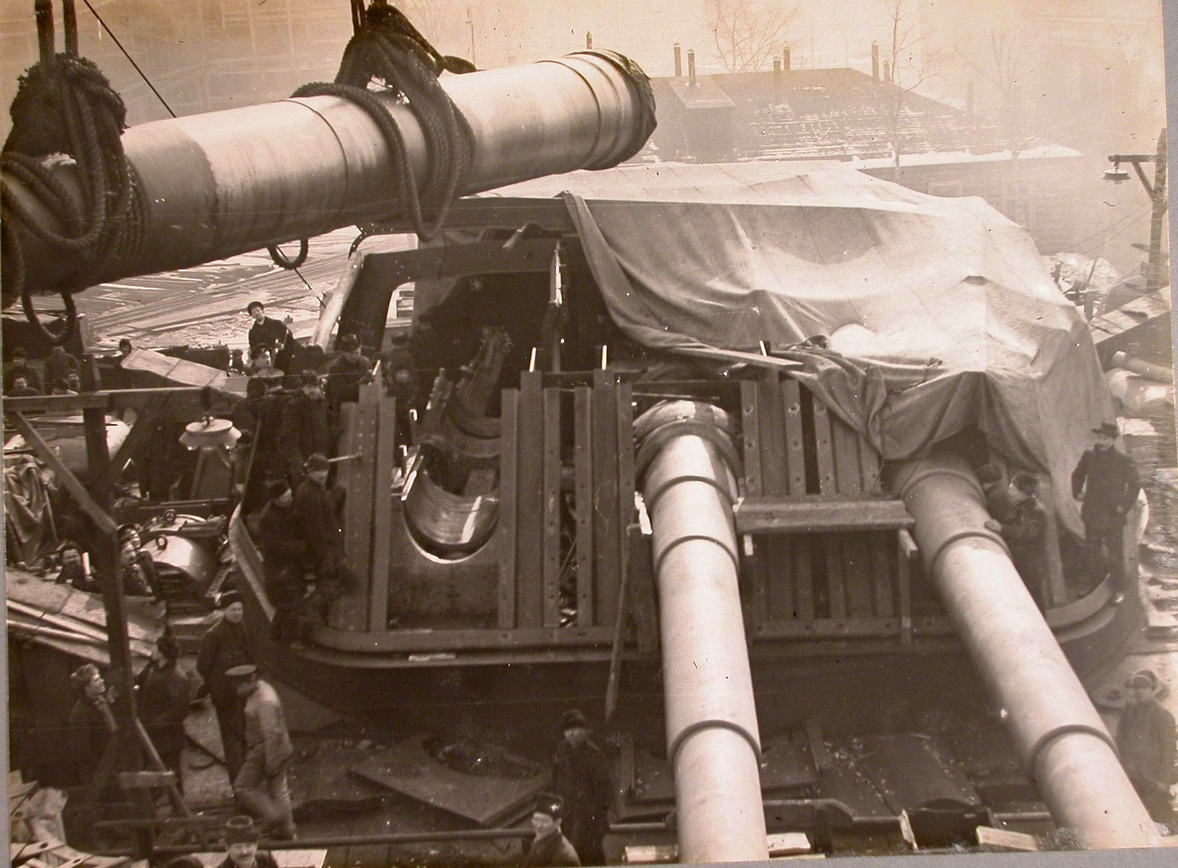 Construction of a main calibre turret on a Gangut-class battleship Poltava.